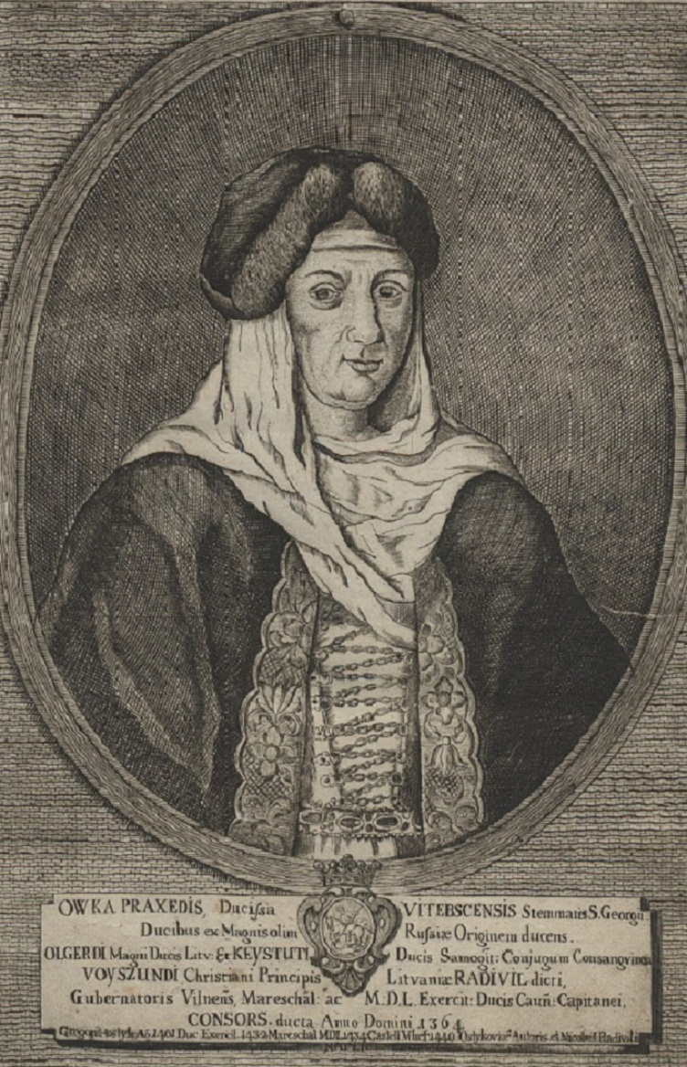 Eupraxia Knyahynya Vitebska